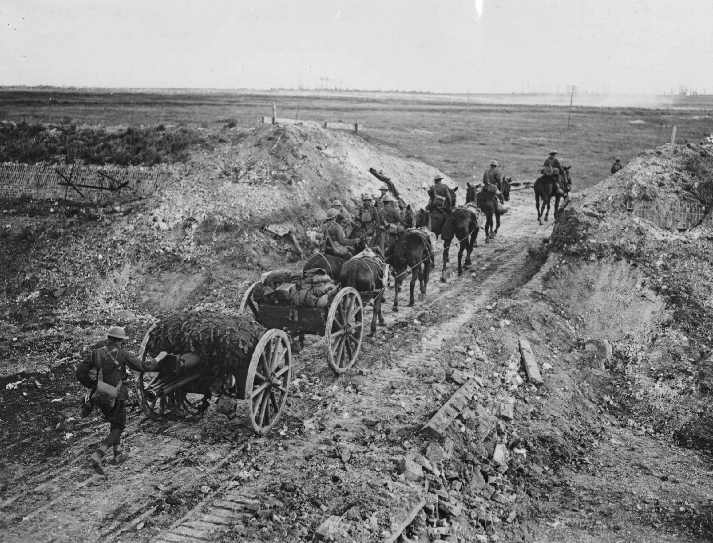 18 pounder field gun and its limber being towed by the standard 6 horses, passing through a cutting in the Canal du Nord, France. A driver is mounted on each of the 3 leftside horses. The gun's No 1, a Sergeant, rides ahead. On top of the gun is stowed its portable camouflage netting.